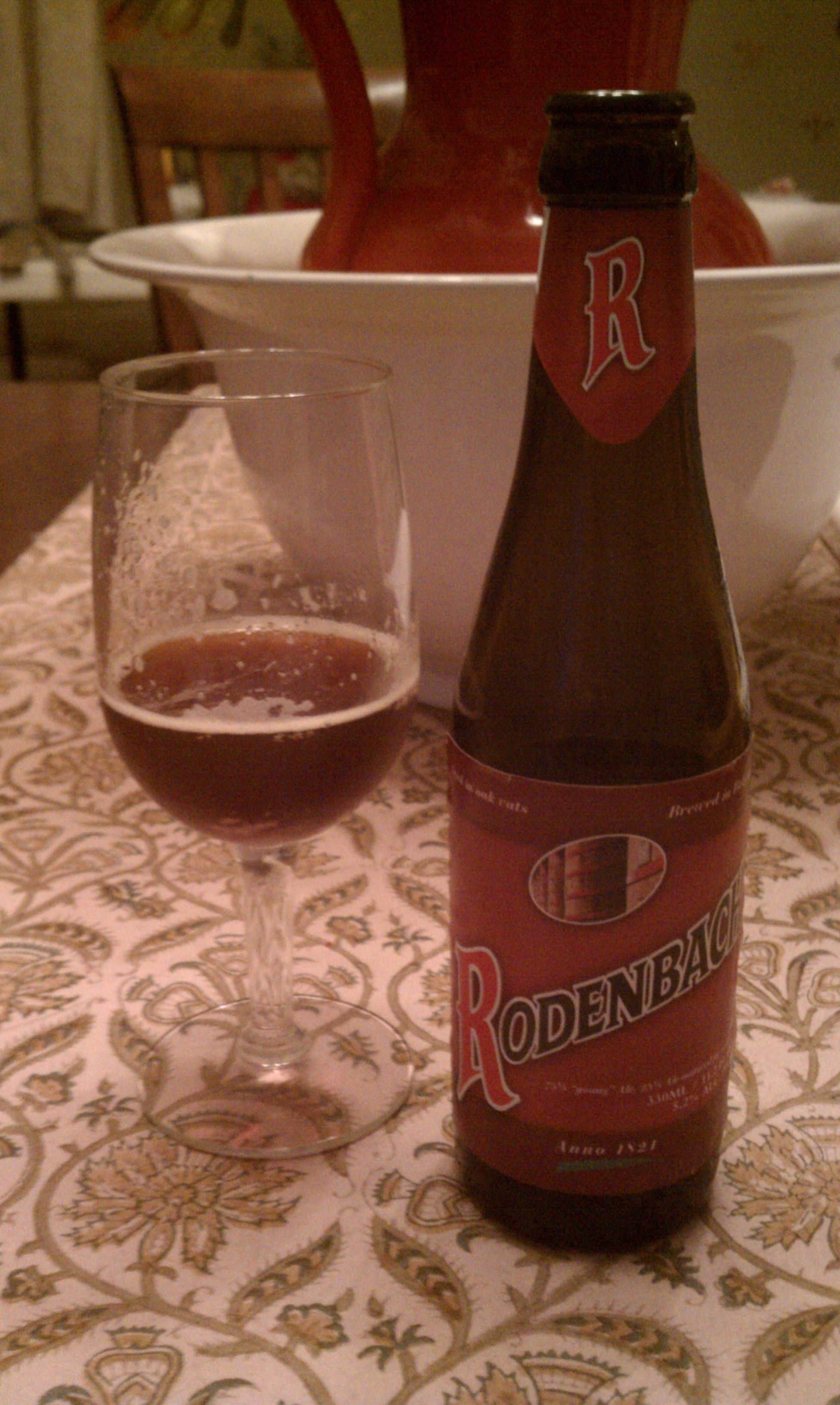 A sour ale from the Rodenbach Brewery, with bottle.